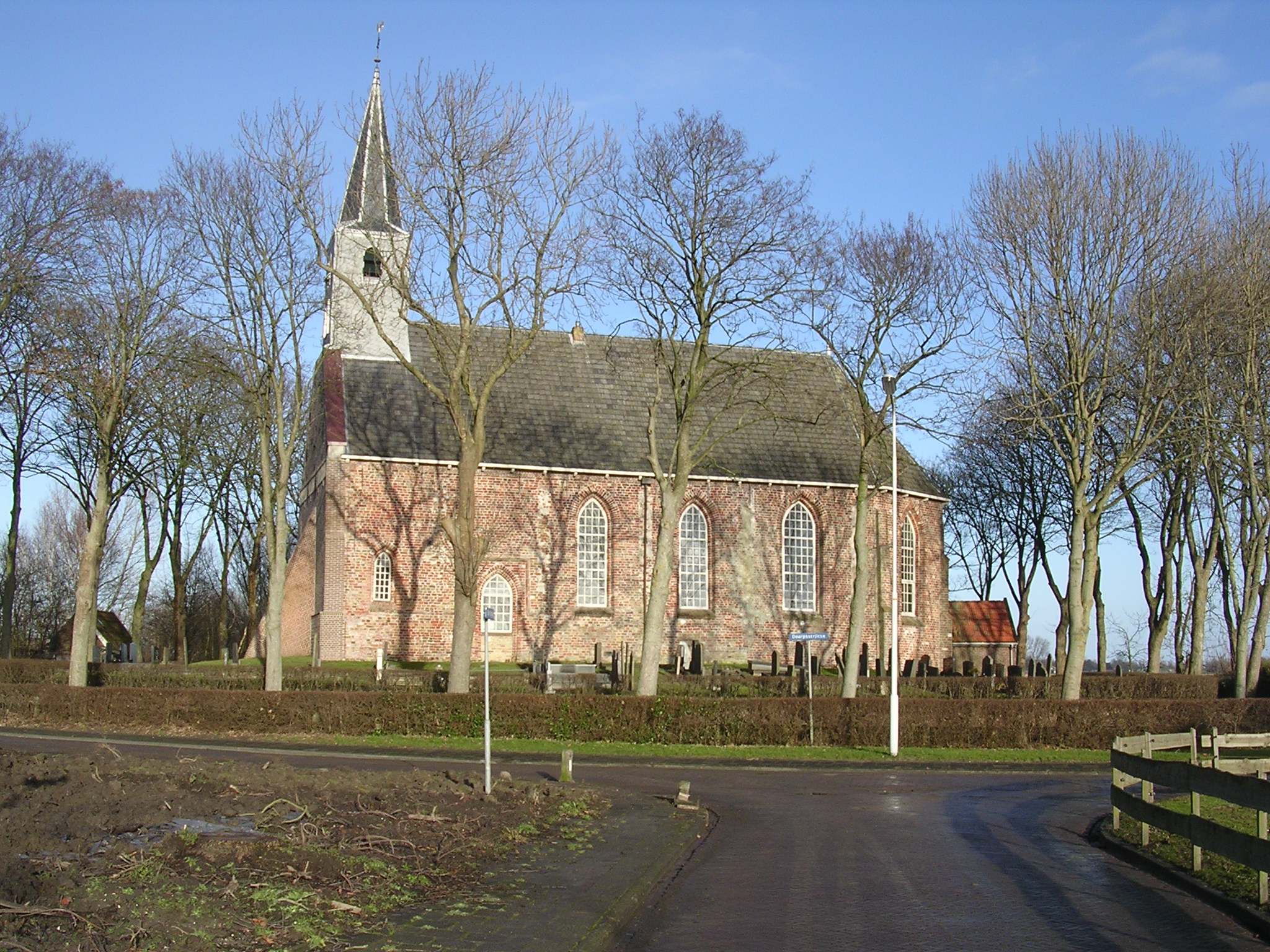 Herfoarme Tsjerke fan Ljussens (Church in the village of Lioessens)